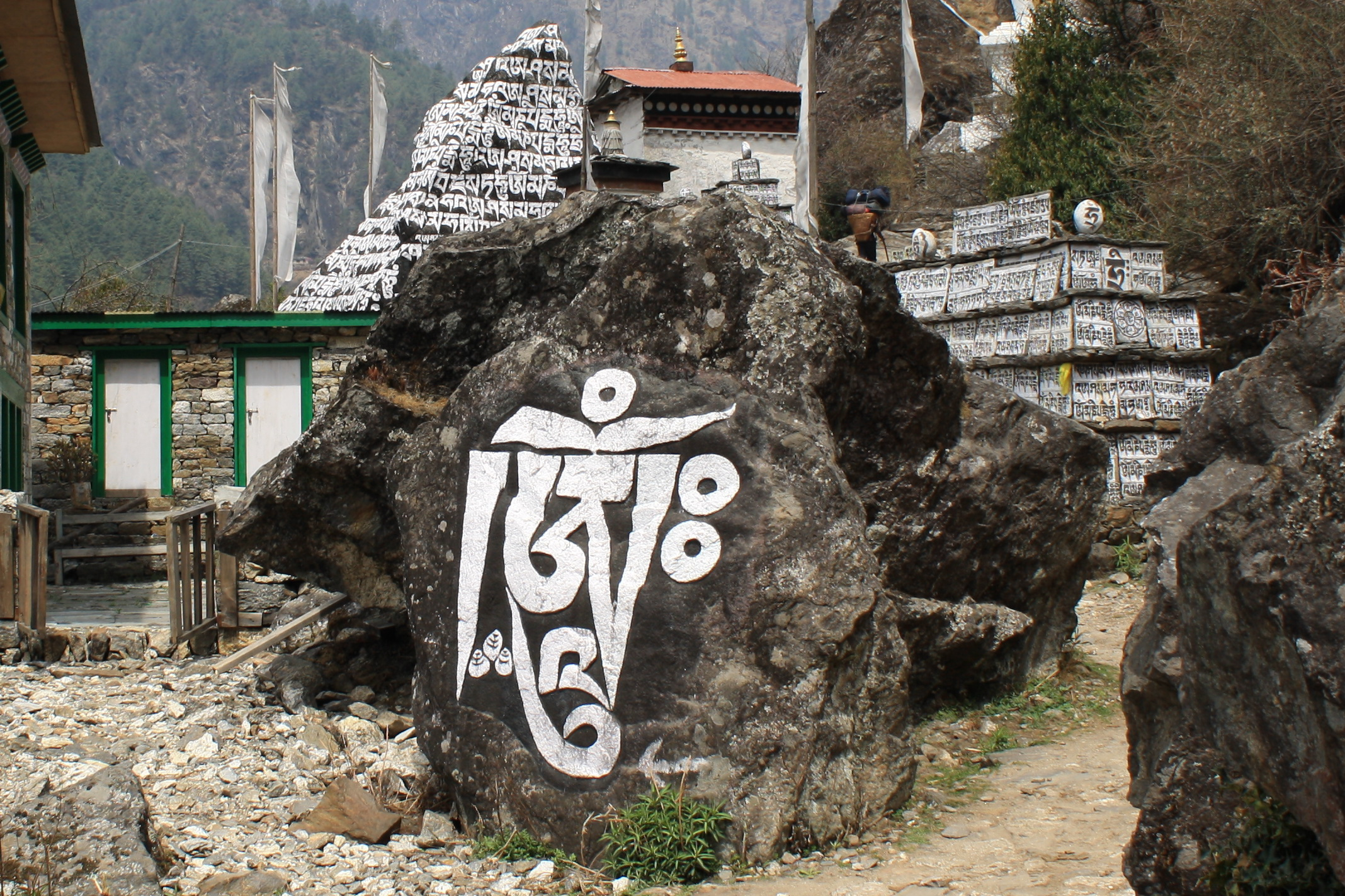 Mani stone near Phakding village, in the trail from Lukla to Namche Bazaar, Nepal.